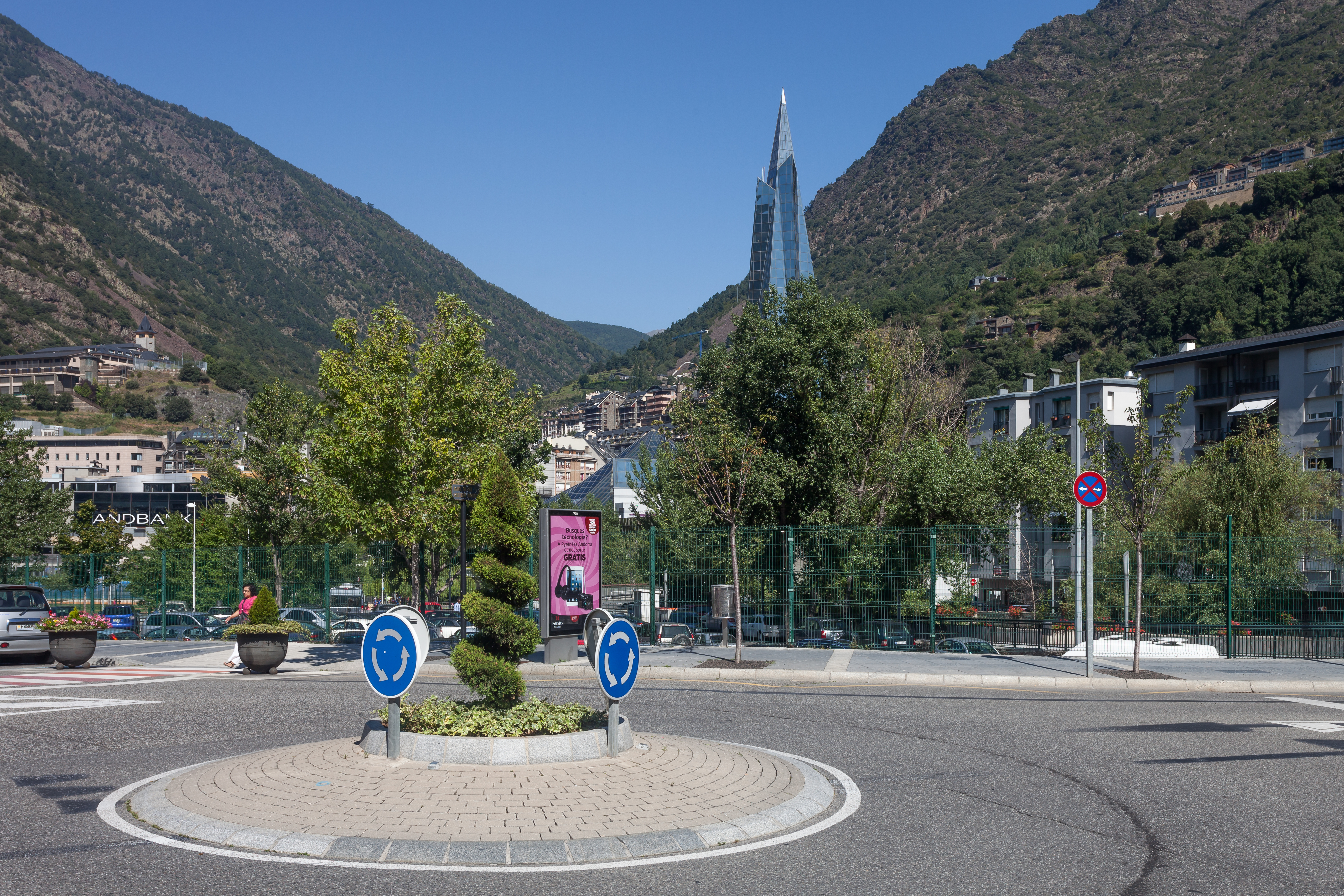 Road and landscape in Escaldes-Engordany. AndorraGalego: Rotonda en Escaldes-Engordany. Andorra.